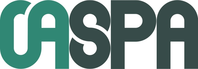 Logo for OASPA Organisation